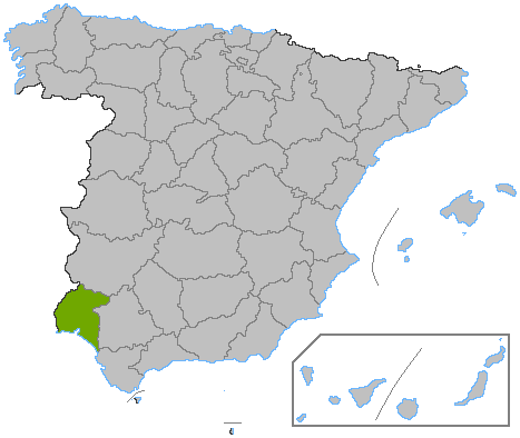 Location of the province of Huelva, in Spain. Basado en: ProvPont.jpg Source: Designed by Satesclop. Original picture, designed by Sobreira.